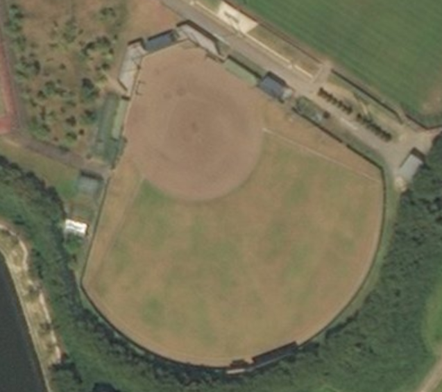 Satellite view